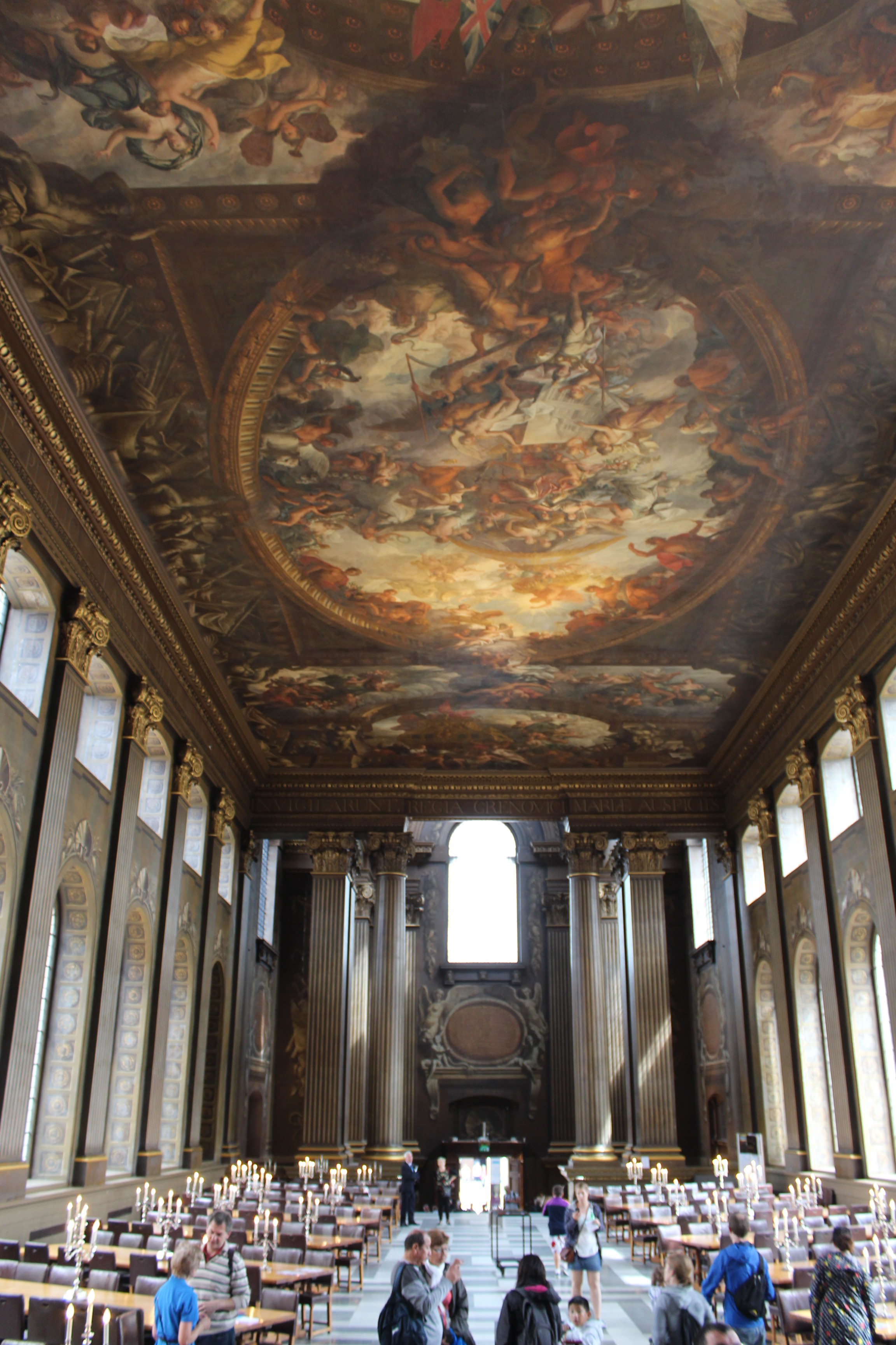 Painted Hall, Greenwich Hospital